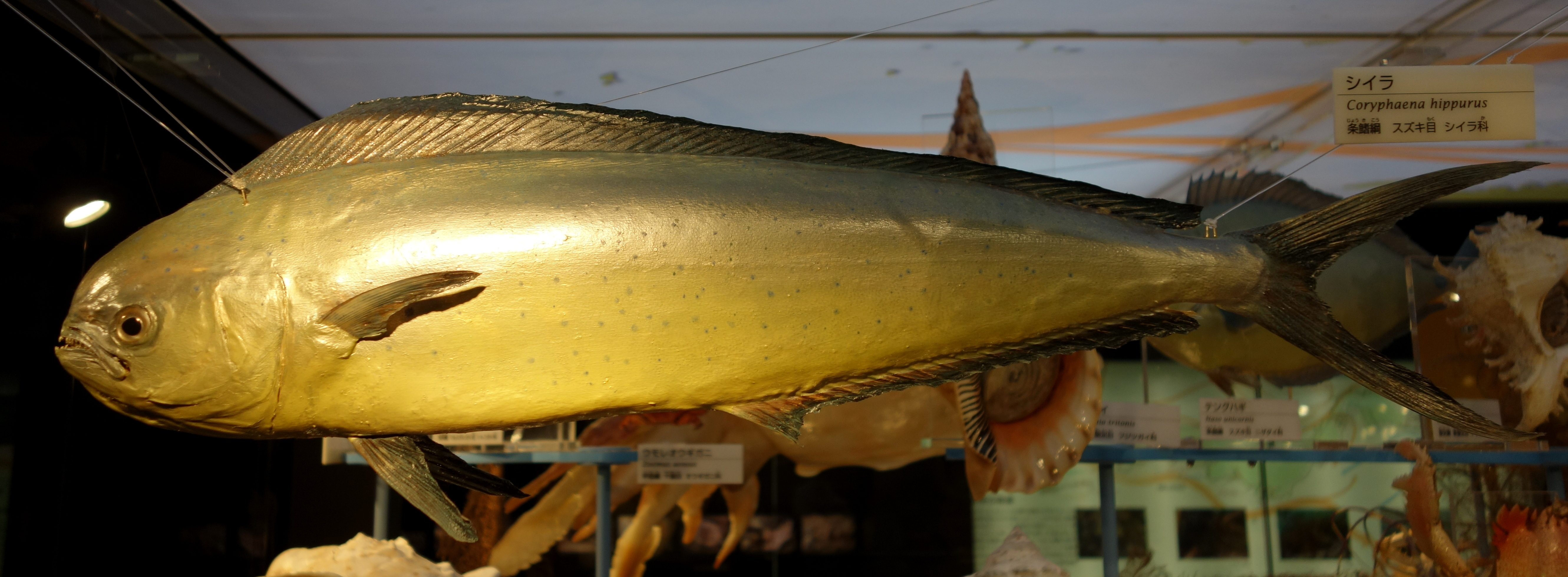 Exhibit in the National Museum of Nature and Science, Tokyo, Japan.